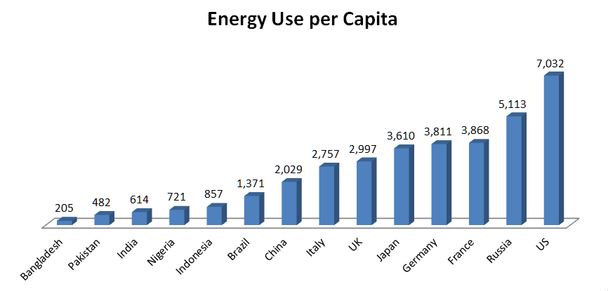 The World Bank : Kilograms of oil equivalent (2011)